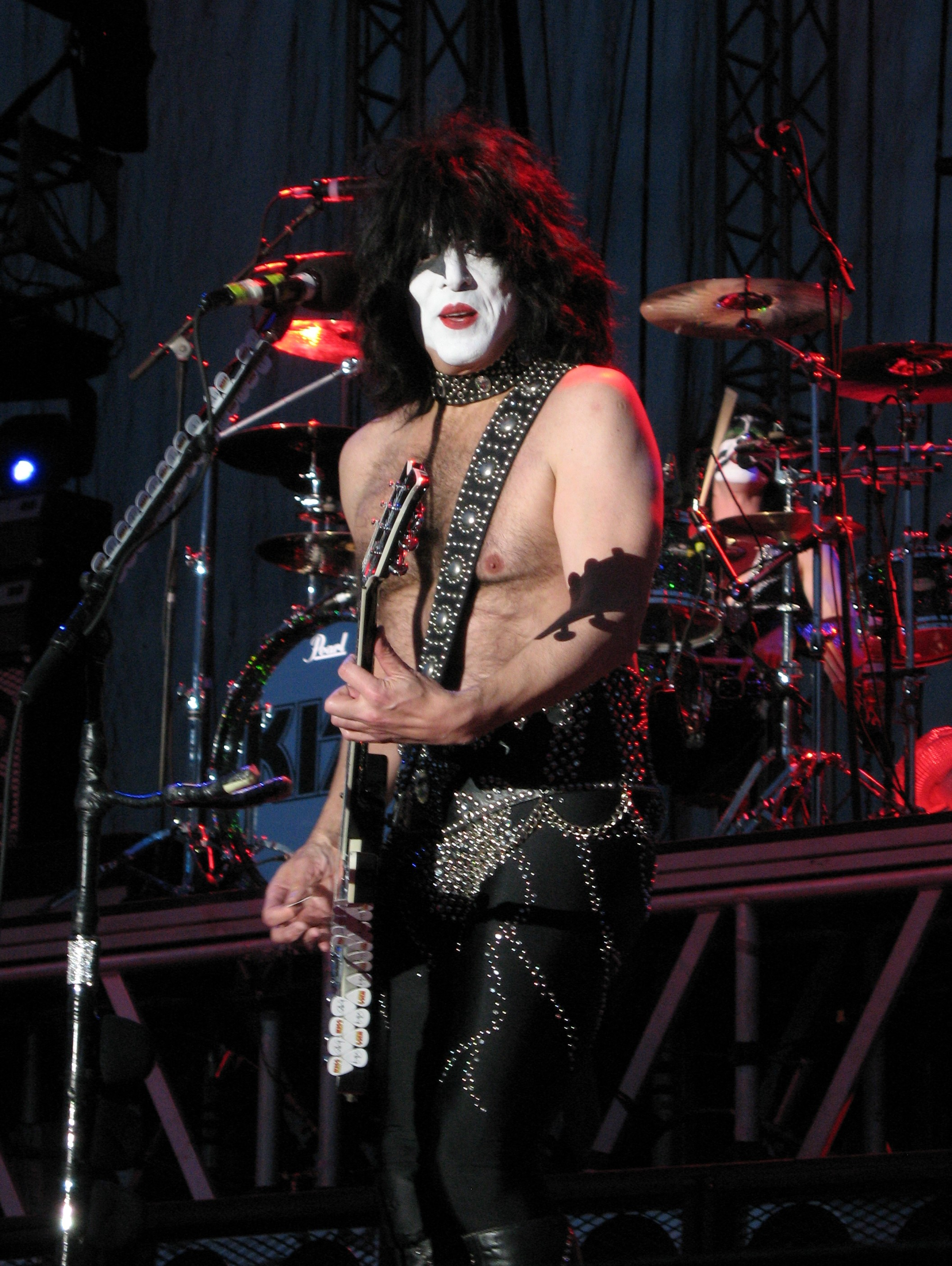 Picture taken by myself at the Kiss concert in Sofia - Bulgaria (16th of May 2008).